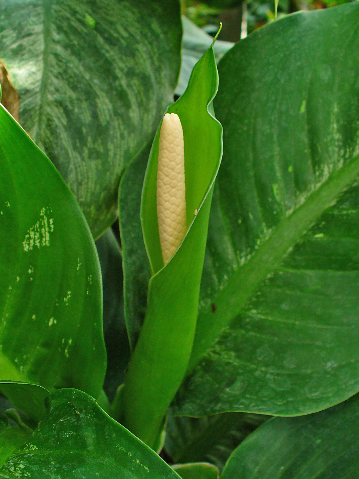 Dieffenbachia seguine, Araceae, Dumb Cane, inflorescence. The plant is used in homeopathy as remedy: Caladium seguinum (Calad.)